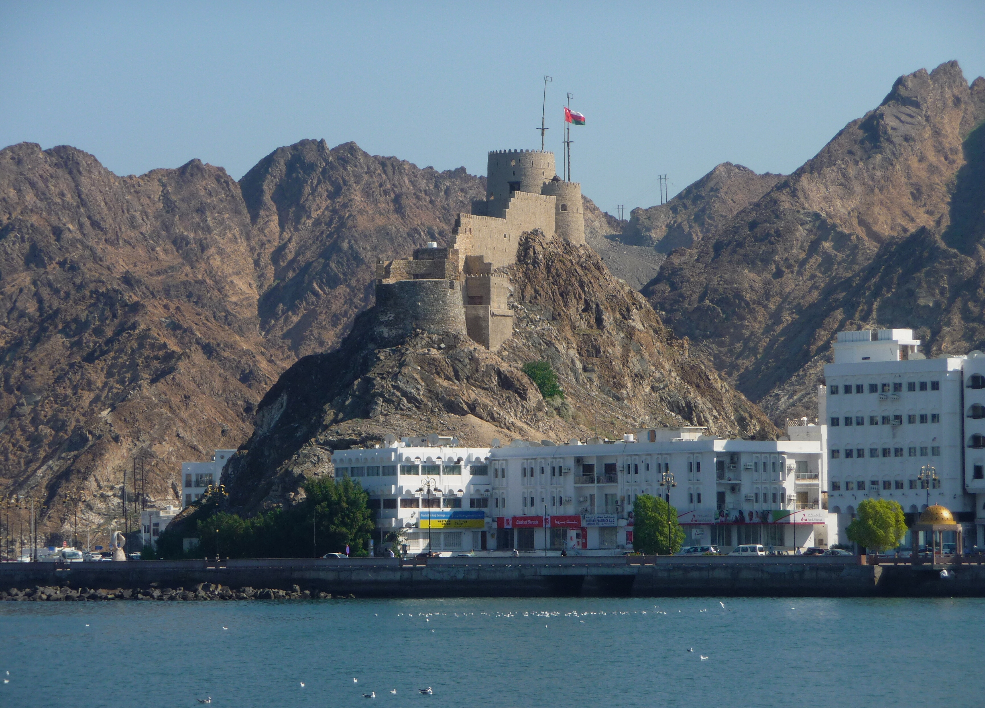 Fort Mutrah (Muscat, Oman).